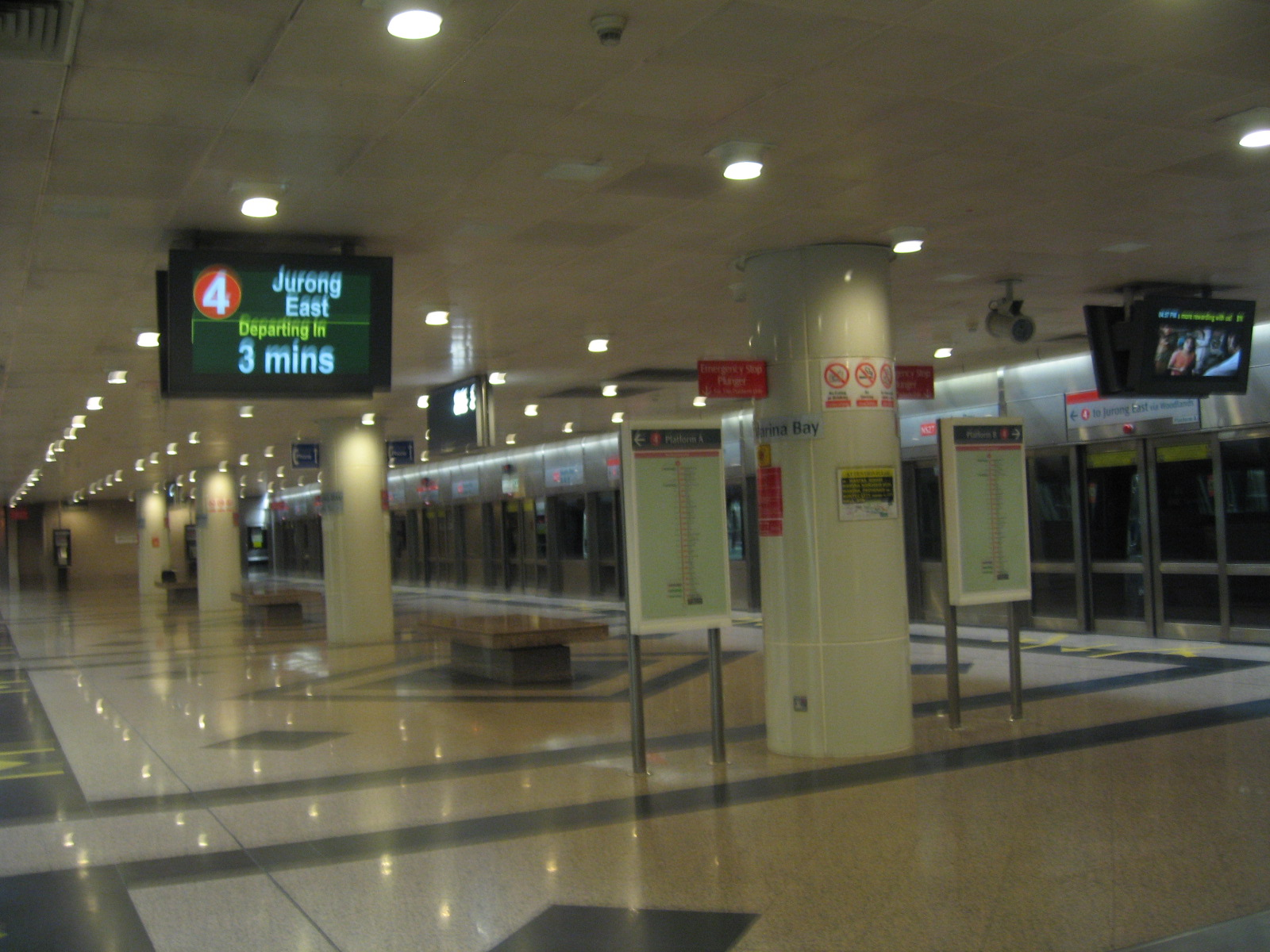 Marina Bay MRT Station.